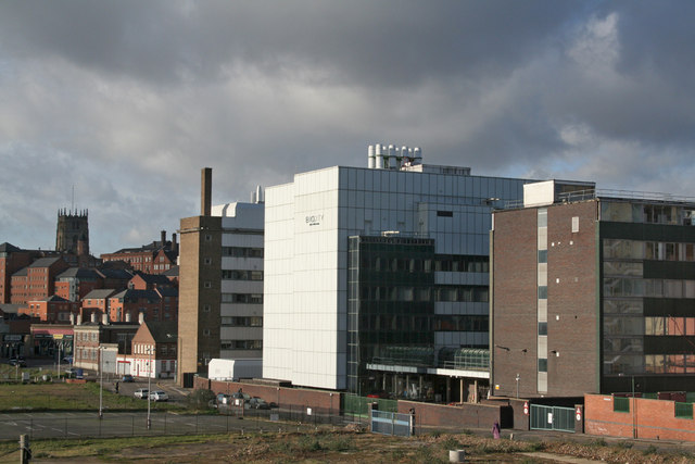 Biocity Nottingham Pharmaceutical research firm, formerly part of the Boots Company.